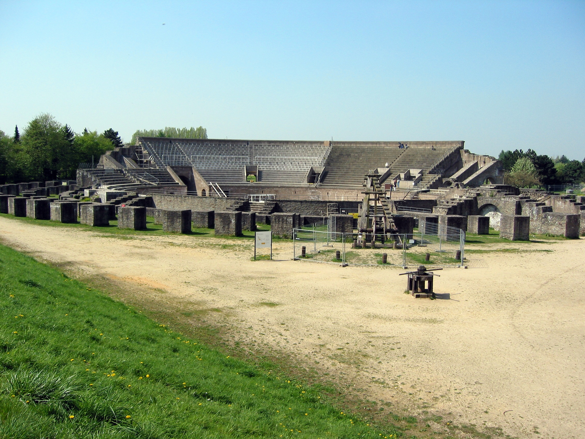 Photo taken April 23, 2005, by Magnus Manske, with expressed verbal permission. Colors/contrast enhanced with Picasa.